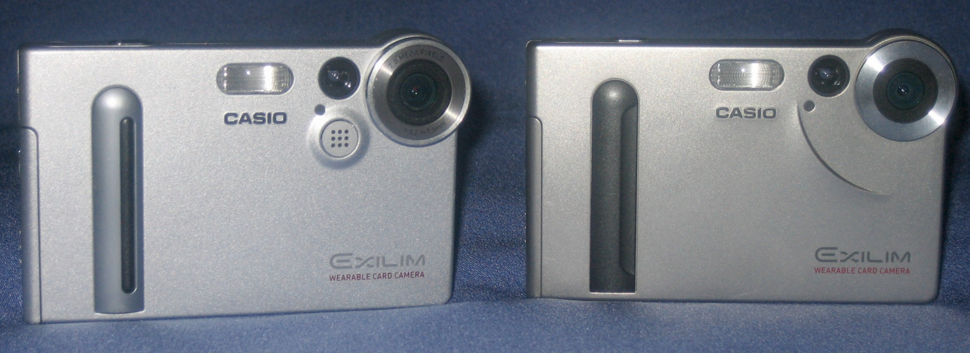 Casio Exilim EX-M2 and EX-S2 side by side. Good Design Award 2002.